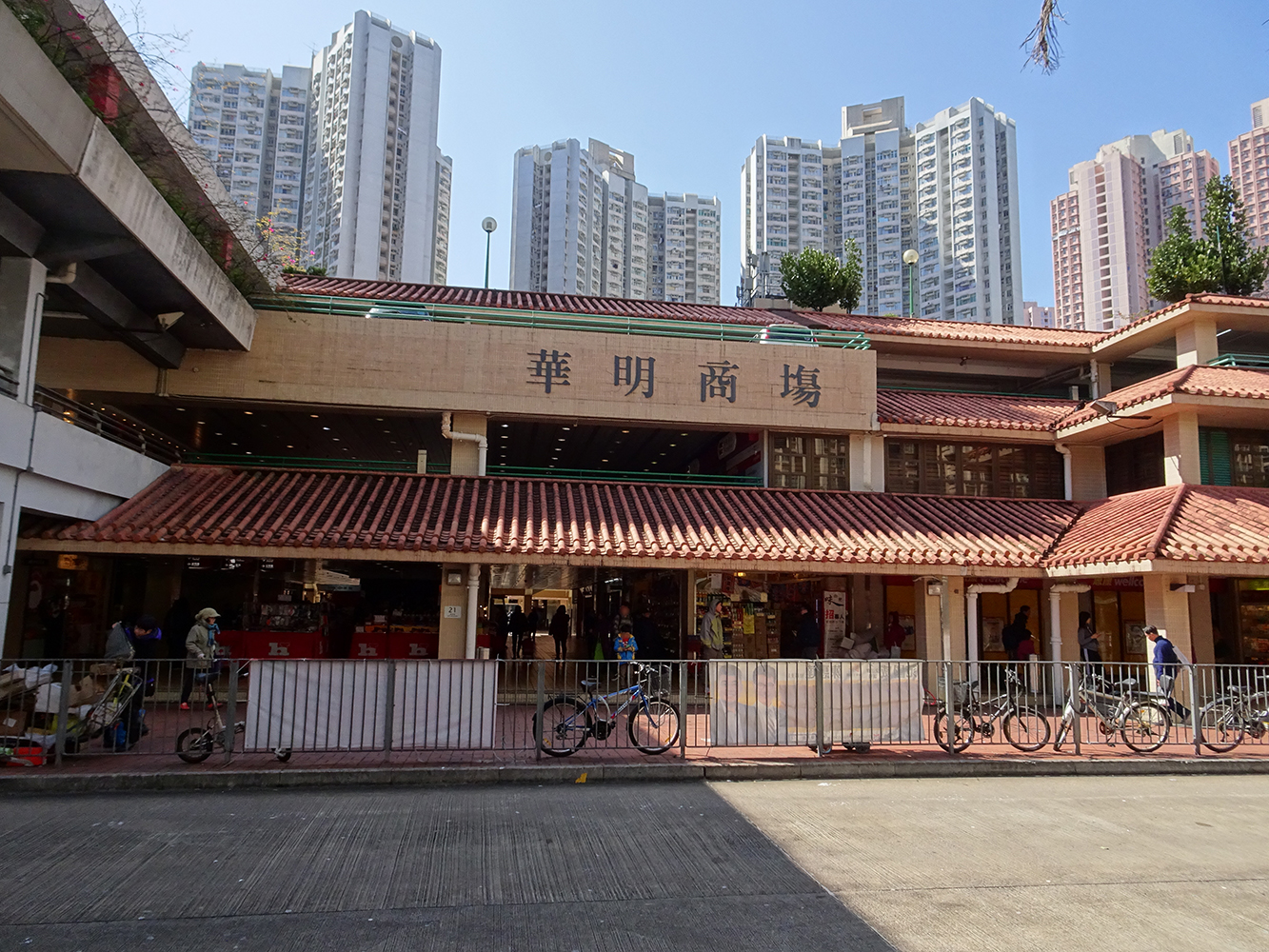 Wah Ming Shopping Centre in Fanling, Hong Kong.